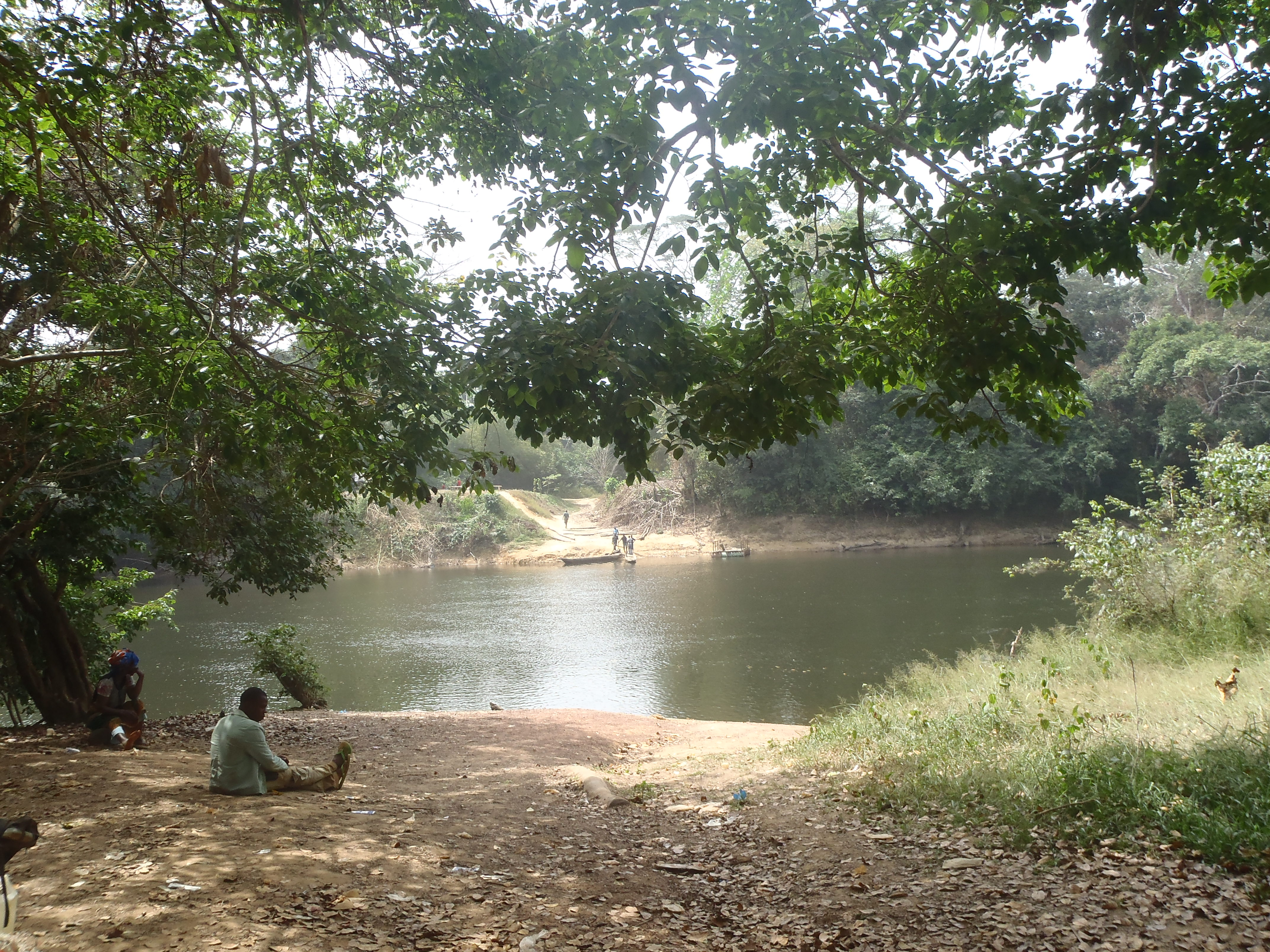 Côte d'Ivoire, Taï: the Liberian border crossing point on the Cavally.